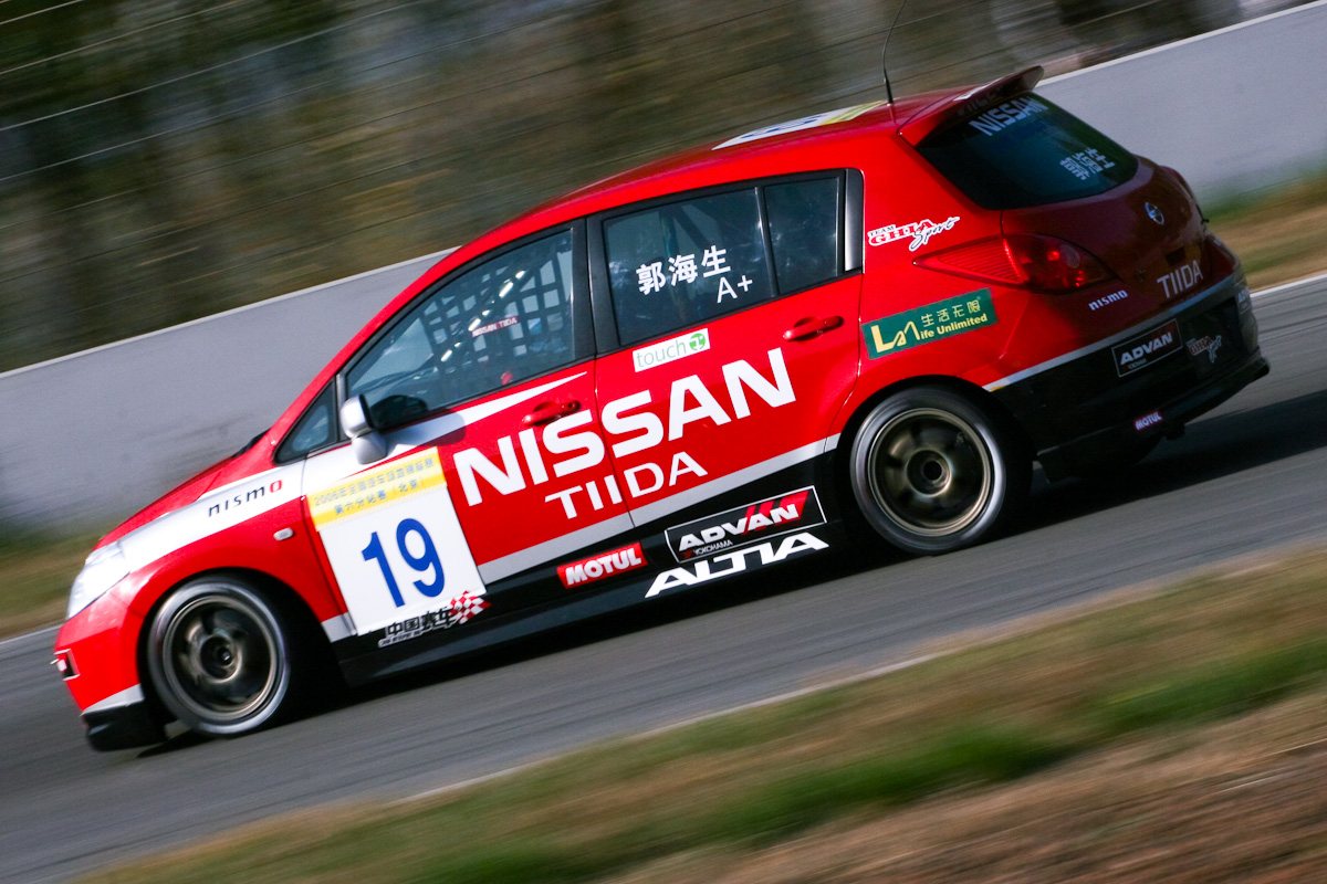 Nissan Tiida #19 at Race 6 in Beijing, 2006 China Circuit Championship (CCC)